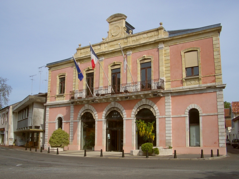 Town hall of Soustons (departement Landes) in France